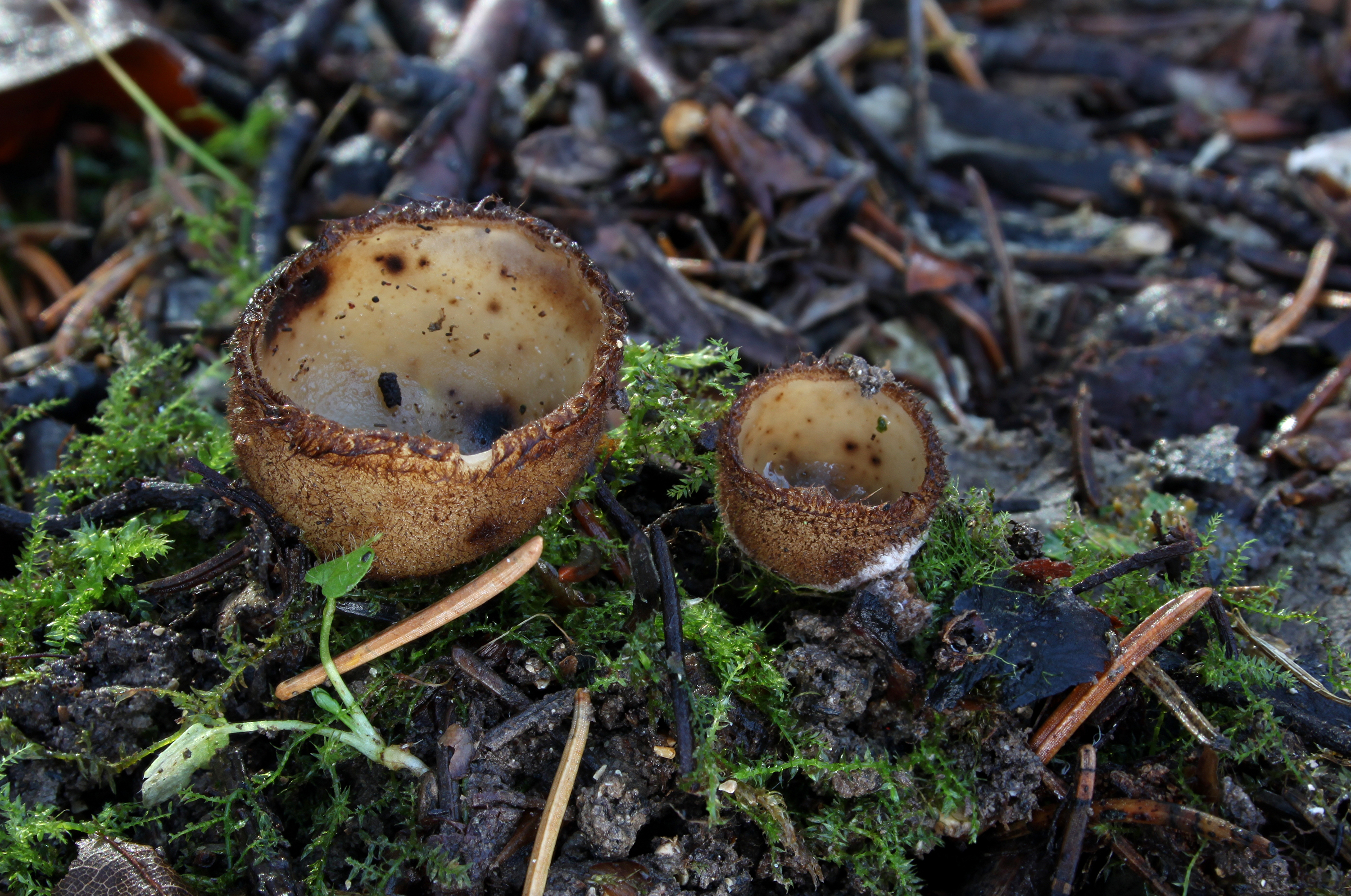 Hairy Fairy Cup or Brown-Haired Fairy Cup, Humaria hemisphaerica, Family: Pyronemataceae, Location: Germany, Erbach, Ringingen